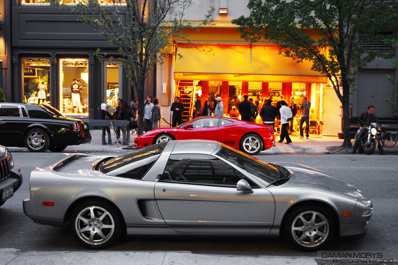 Typical spring/summer evening combo outside Cipriani in SoHo, a couple Bentleys were in front of the NSX and a R8 was down the block to the left.